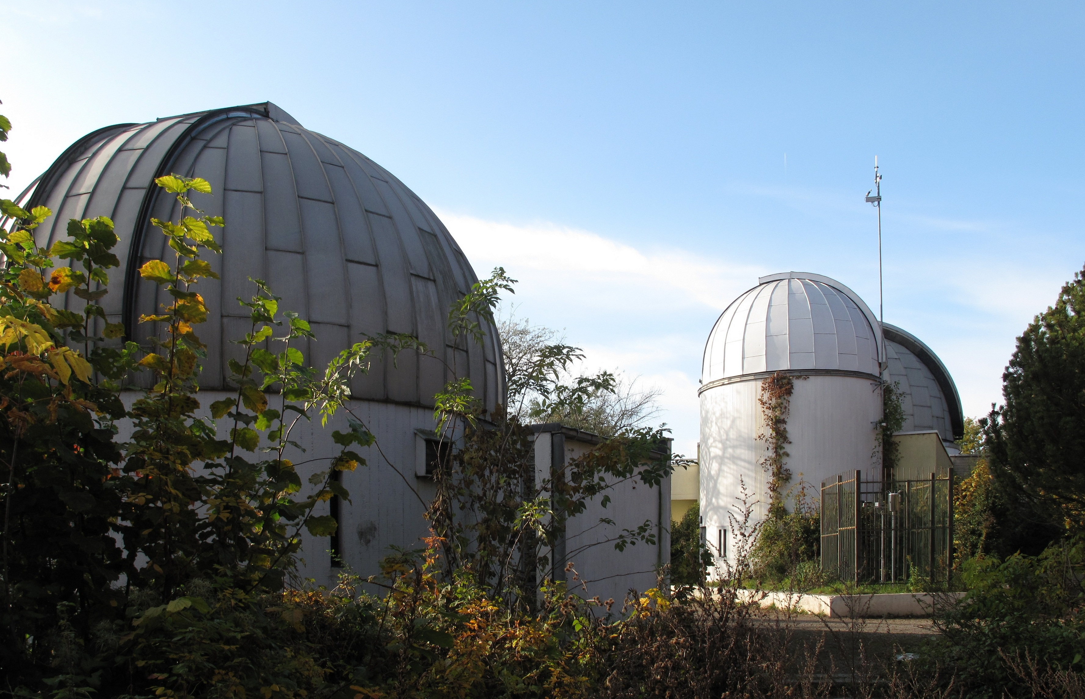 Wilhelm-Foerster-Sternwarte on the Insulaner (Rubble mountain) in Berlin, locality Schöneberg, Germany. The listed public observatory was opened in 1963.